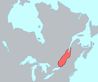 Zone d'occupation approximative des Iroquoiens du Saint-Laurent vers 1535. Approximate area occupied by the St. Lawrence Iroquoians in 1535. (Modifiation of Image:Iroquoian langs.png created by User:ish ishwar en 2005).